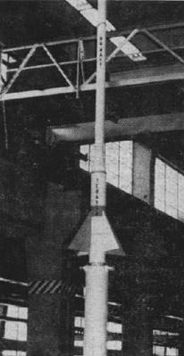 TERASCA (TERrier-ASroc-CAjun) sounding rocket, developed by the Naval Ordnance Test Station, being prepared for a mission.